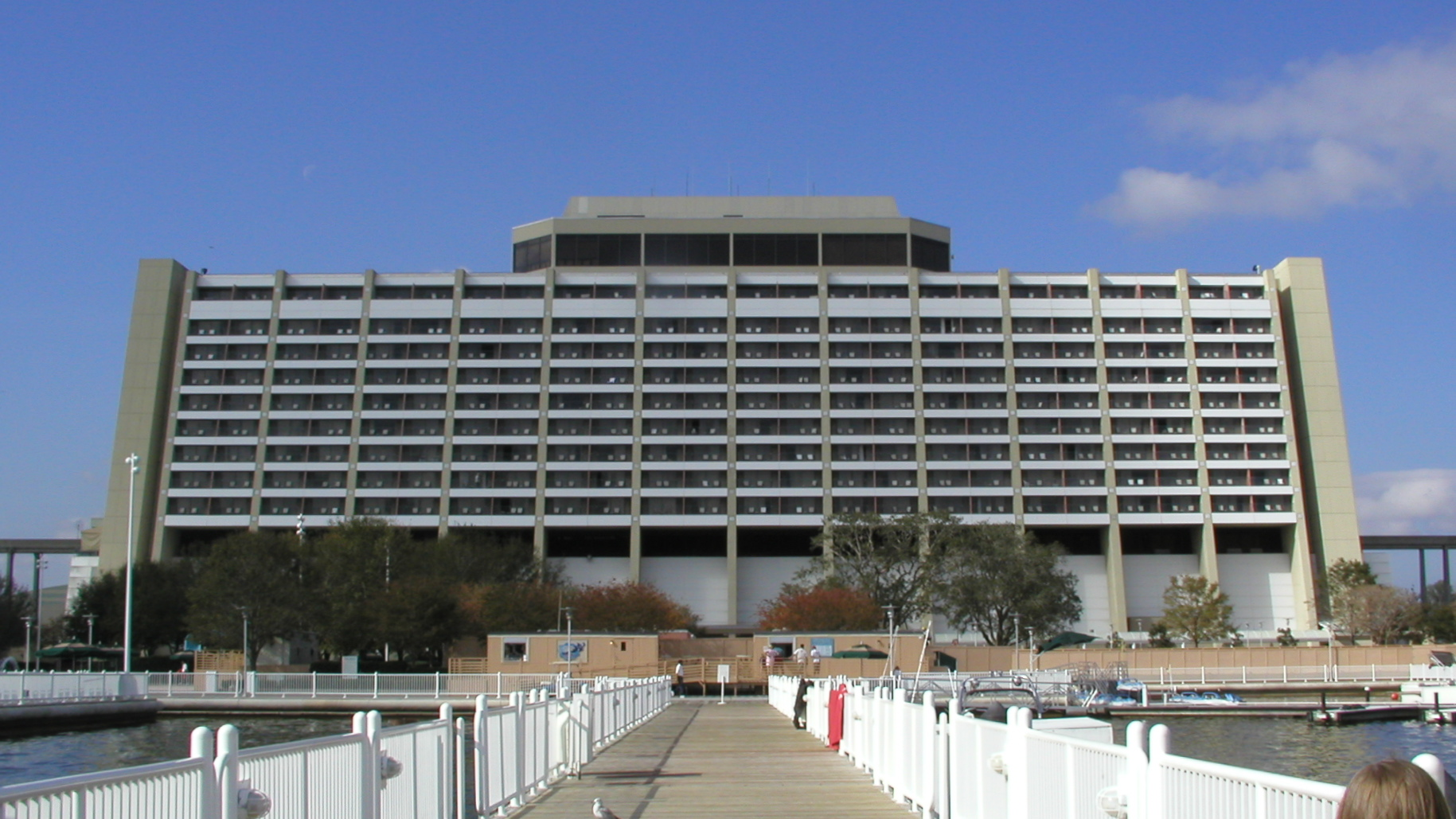 Disney's Contemporary Resort. This picture was taken from the marina, so this is actually the back of the hotel—fortunately, the back and front look the same :-)